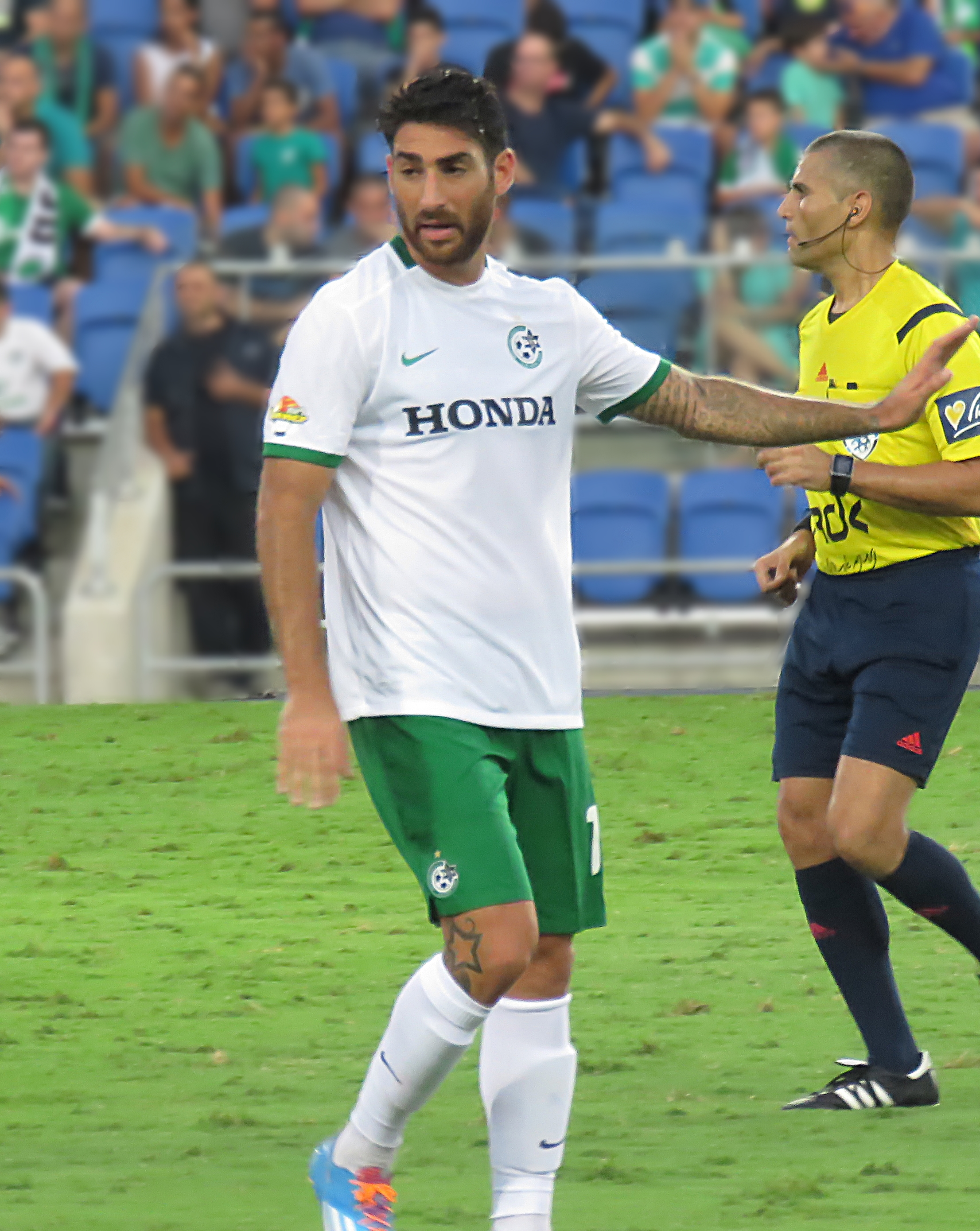 Hapoel Ra'anana vs. Maccabi Haifa F.C., 3 October, 2015